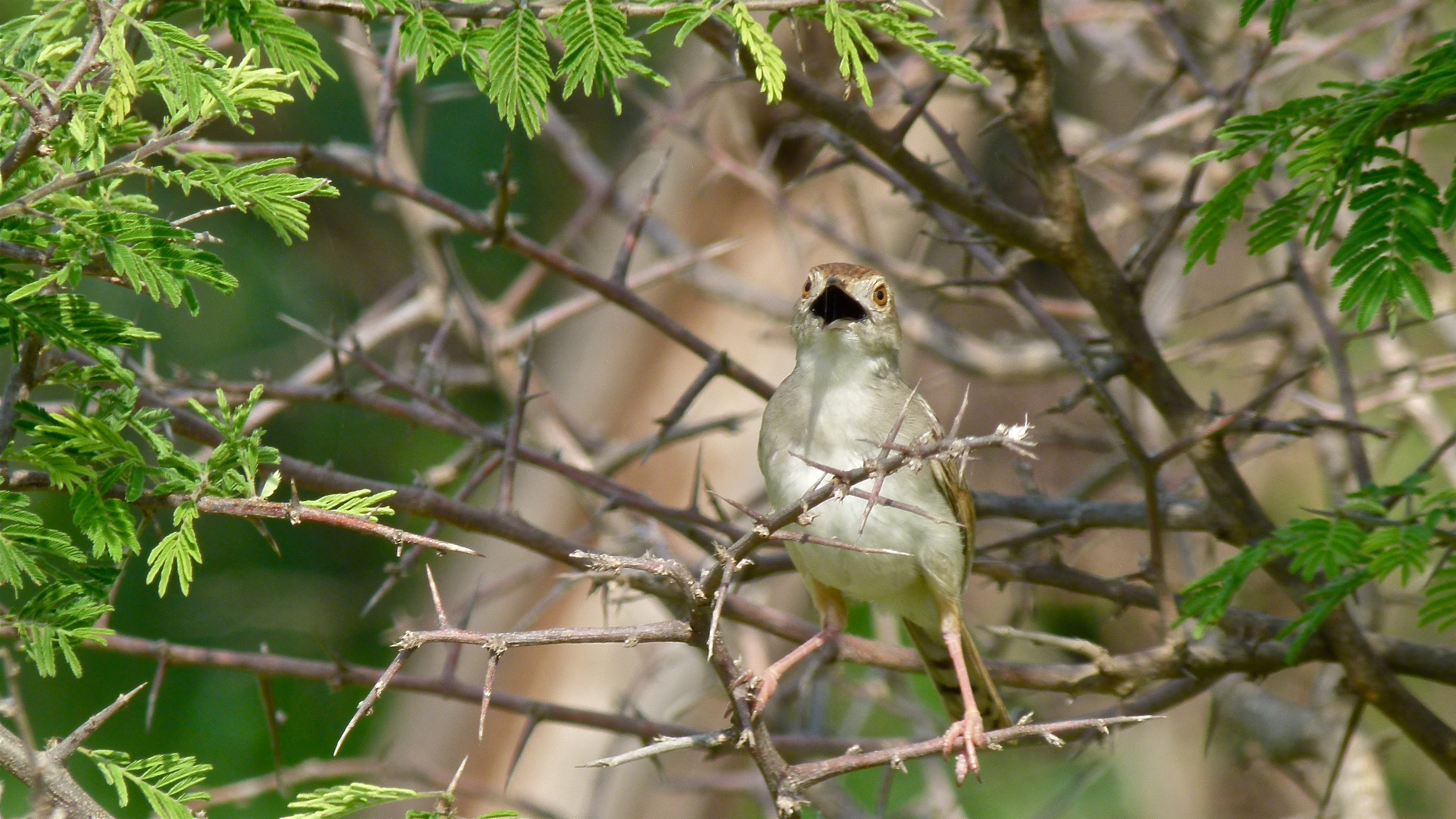 Rattling cisticola perched in Sicklebush beside the S32 near Tshokwane, Kruger NP, SOUTH AFRICA